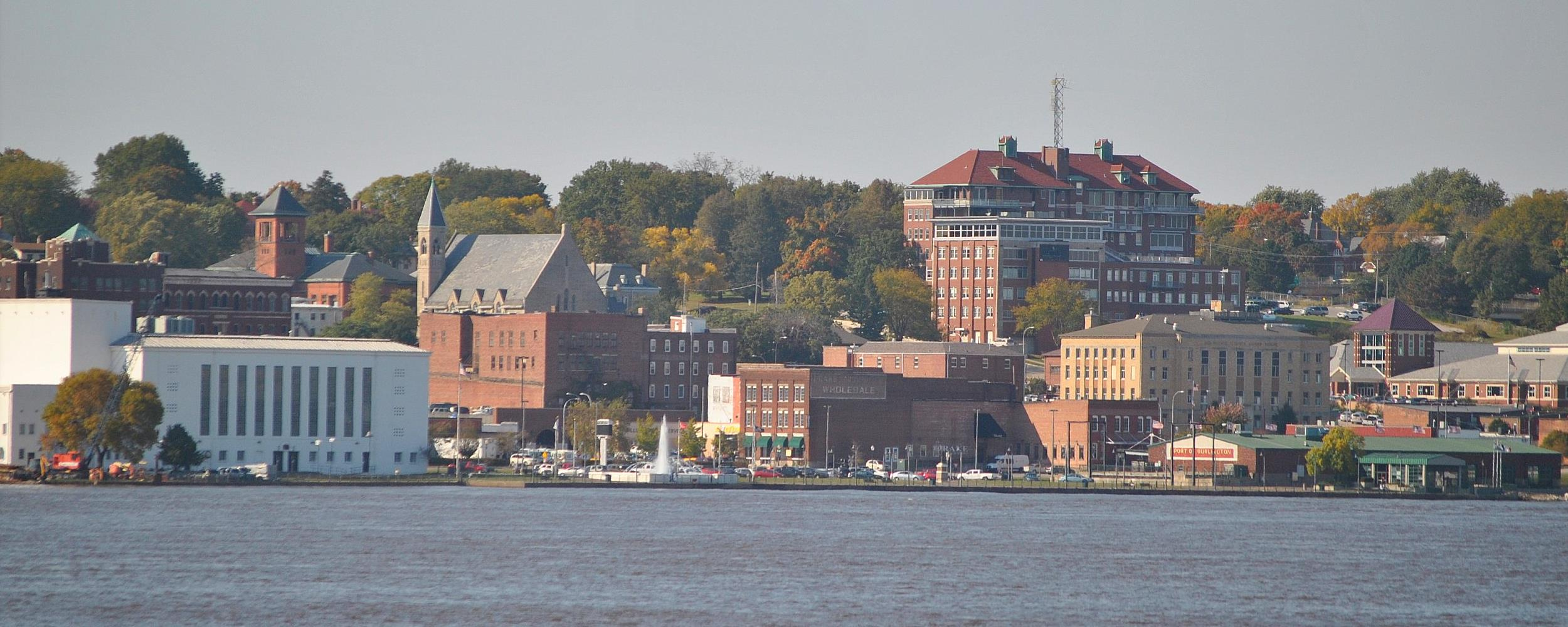 Skyline of downtown Burlington, Iowa, United States.